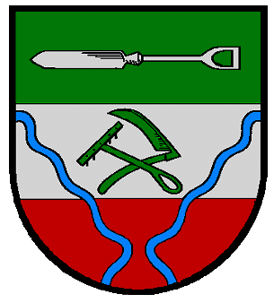 Coat of Arms of Wistedt